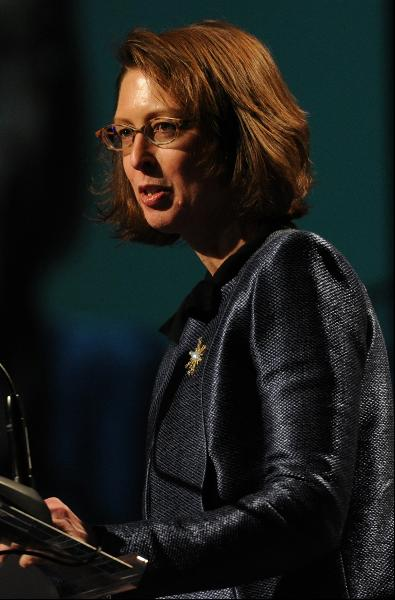 this image is of Abigail Johnson at the Boston Convention and Exhibition Center on April 24, 2012.